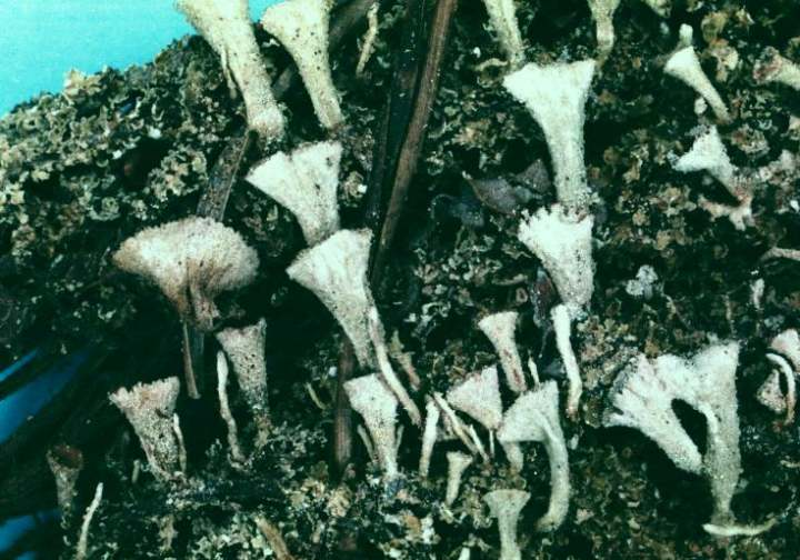 Cladonia chlorophaea (Flörke ex Sommerf.) Spreng., 1827 (photograph of a herbarium specimen) Growing on a stump in a moist area along Route 40, 0.5 mile E of Route 144 (W of Hancock), Washington County, Maryland, USA; collected and identified by A. Norden and B. Norden (No. L-19, 24 Jun 1974); specimen is now in the Lichen Herbarium of the New York Botanical Garden.